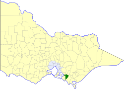 Location of the Shire of Korumburra within Victoria.